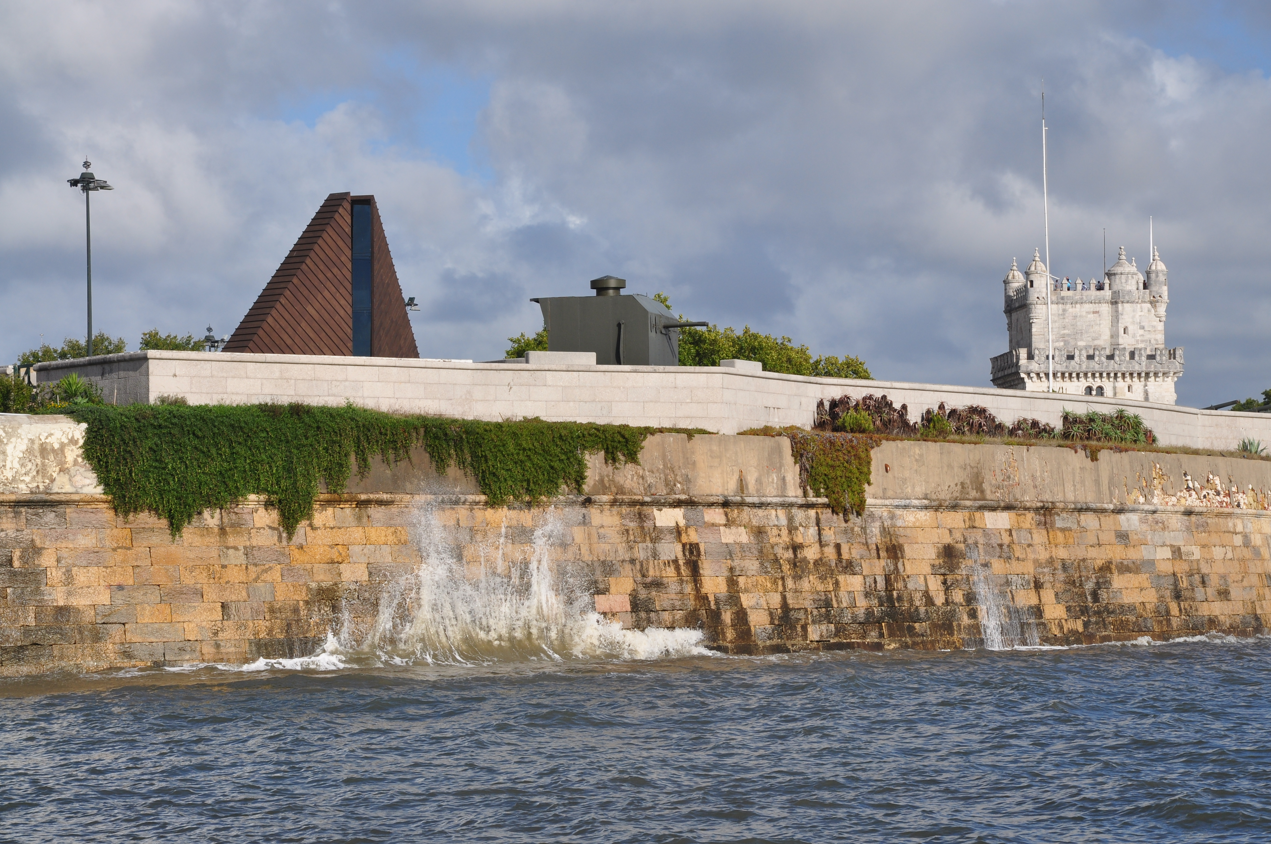 Memorial Monument of the overseas fallen soldiers; Lisbon, Portugal